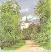 The estate house Balmoral Castle in Aberdeenshire, Scotland, painted by Queen Victoria when it was constructed in 1854.